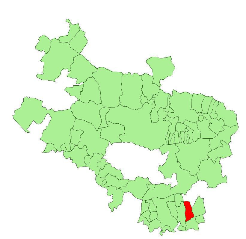 Yécora/Iekora municipality in the province of Alava